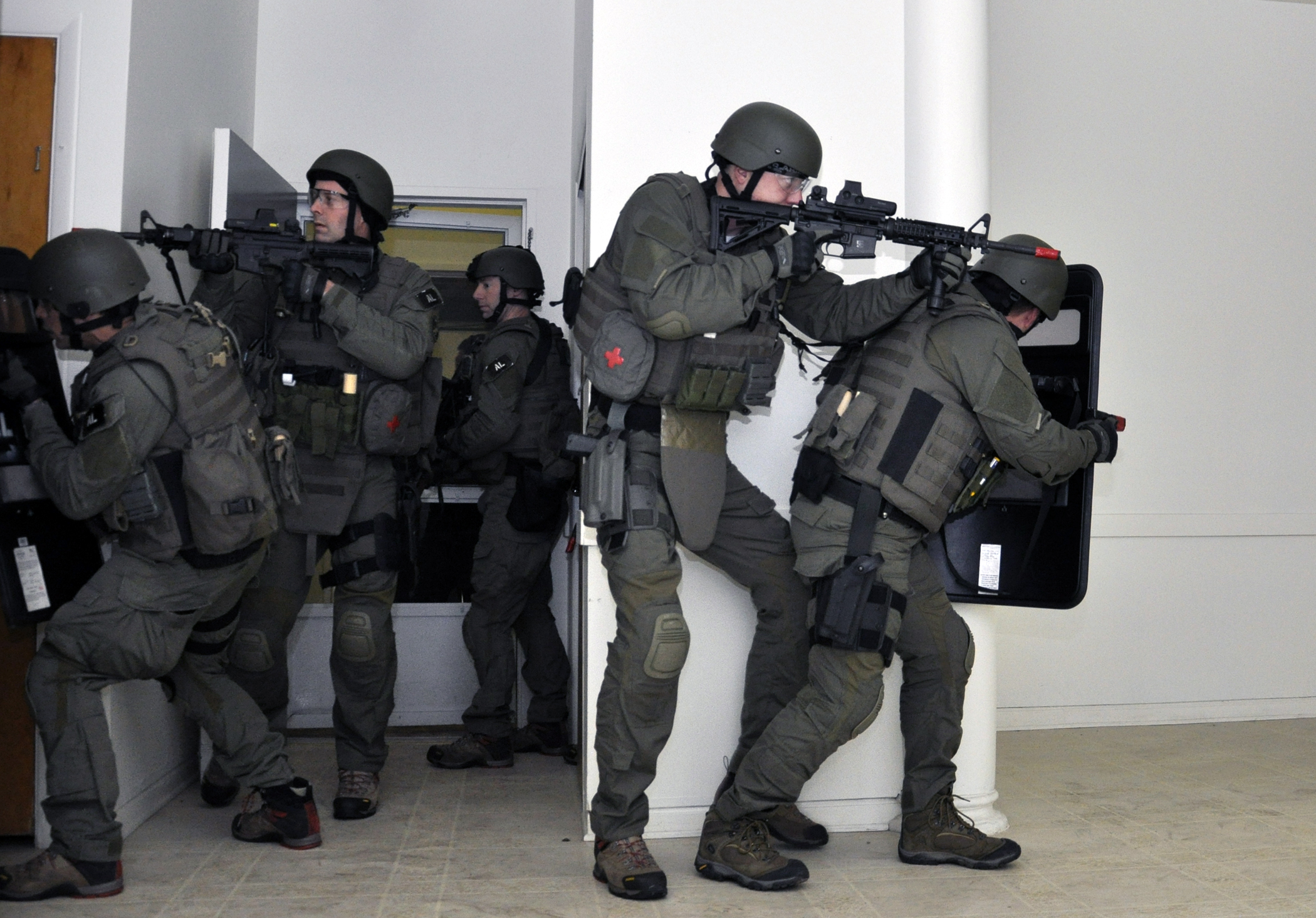 FBI SWAT team members enter a room and break out into right and left formations during training at Watervliet Arsenal, N.Y. At all times they had 360 degree situational awareness.